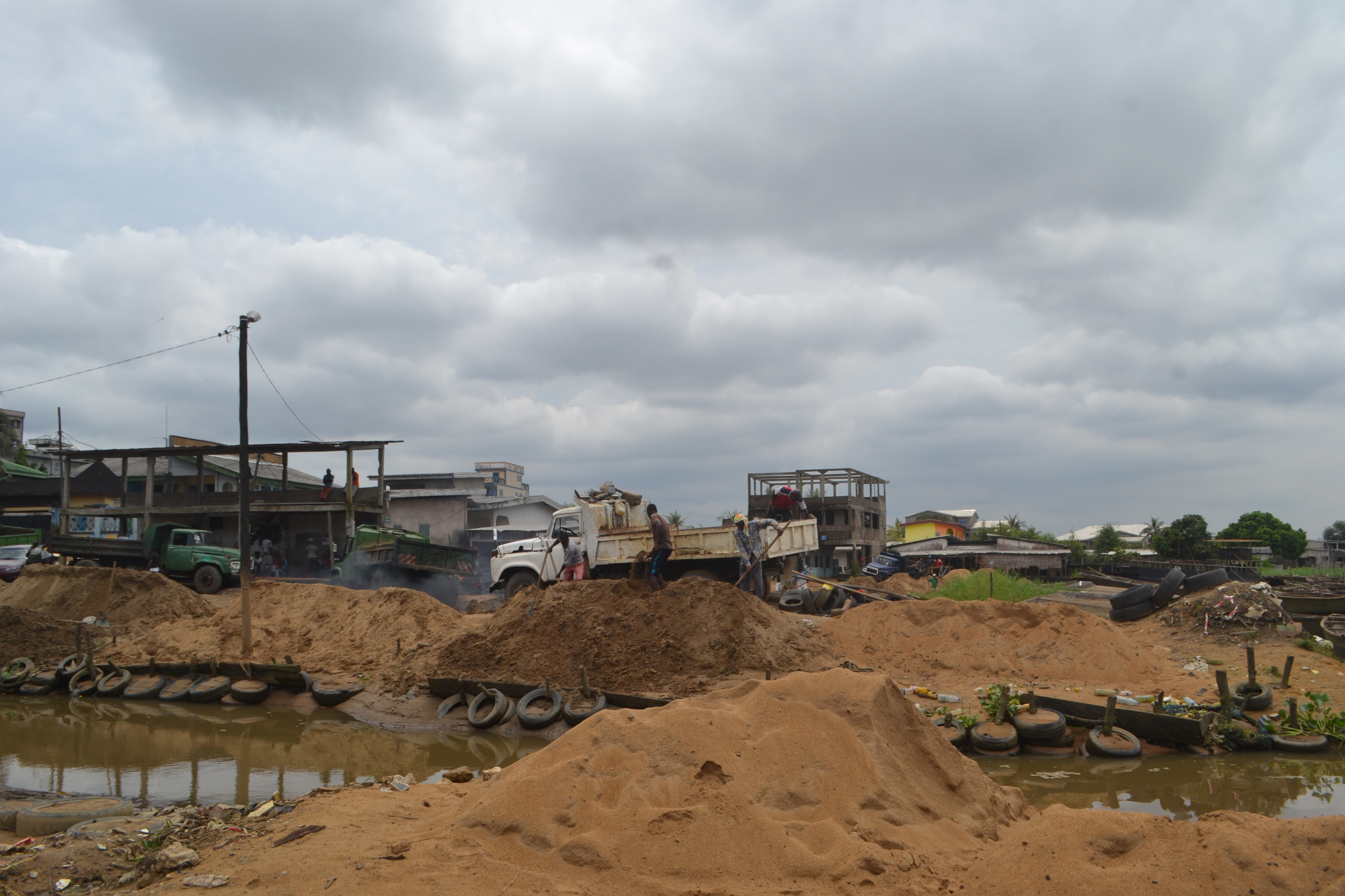 workers in a sand quarry in Douala